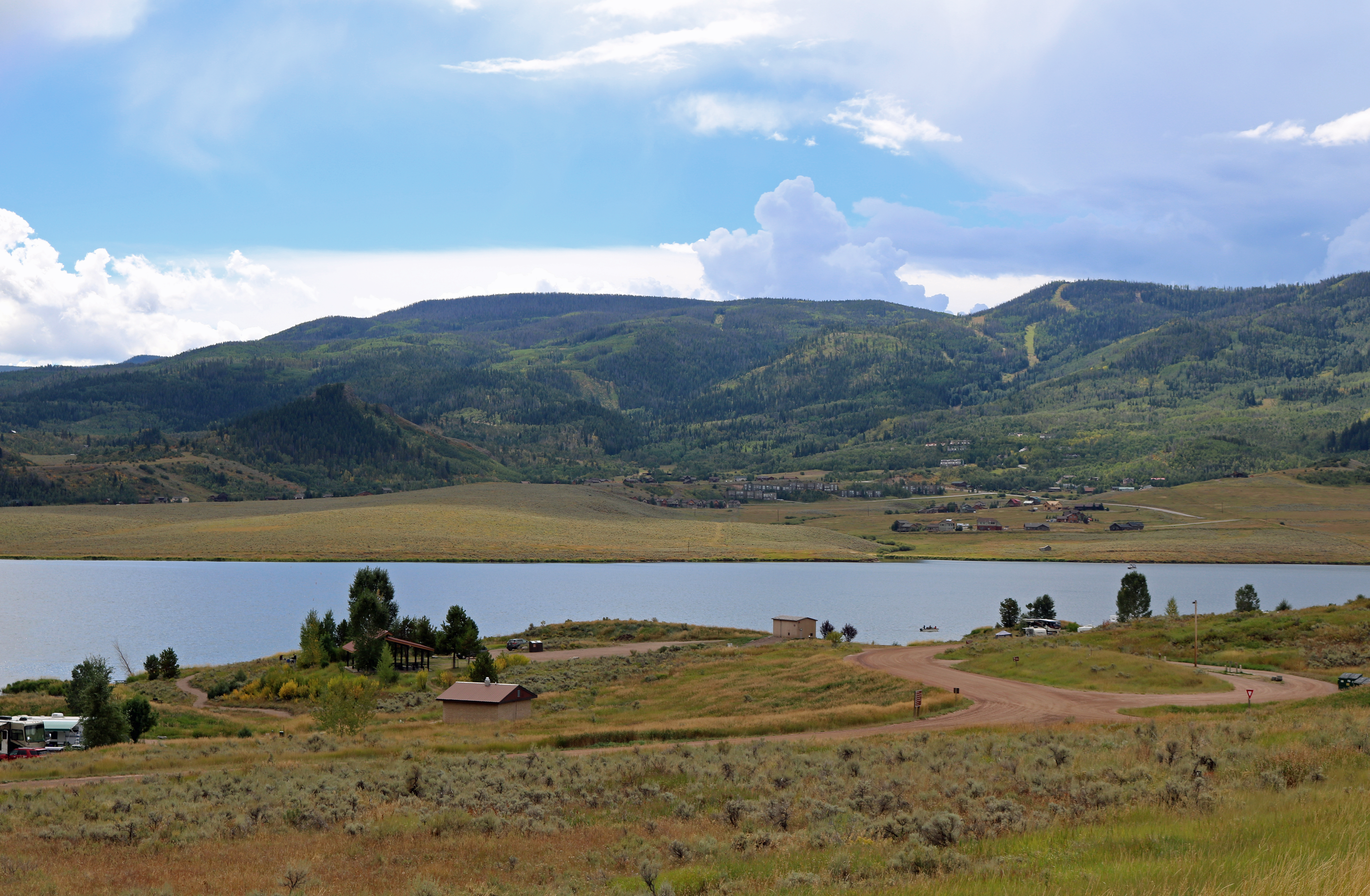 A view of Stagecoach State Park in Routt County, Colorado. Stagecoach Reservoir is on the Yampa River. Most of the land on the far side of the reservoir is outside the park.